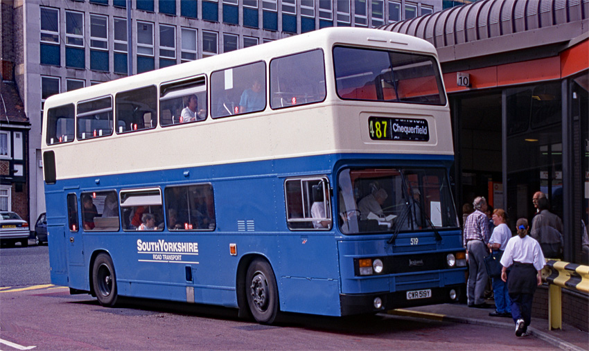 Leyland Olympian ONLXB/1R ECW at Pontefract bus station in 1996. Fleet number 519, registration number CWR 519Y. Scanned from a Fukichrome 35mm slide.